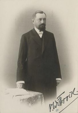 Portrait photograph of Pastor Viktor Wittrock by Wilhelm Staden, Dorpat/Tartu c. 1900/1910